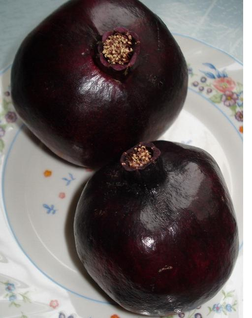 Black Pomegranate of Taft, Iran